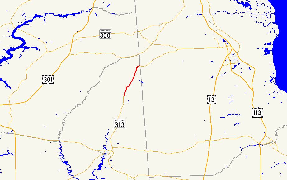 Map of Maryland Route 311